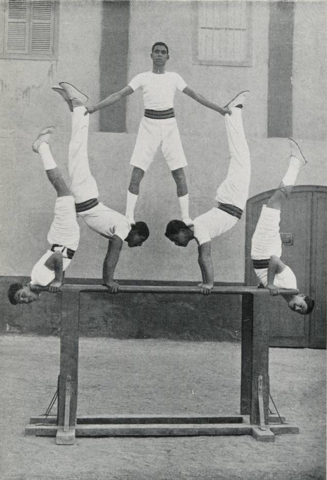 GYMNASTICS AT THE POLICE SCHOOL. Five men pose on a balance beam; four are upside-down with their legs in the air while the fifth stands on the shoulders of the two closest to the middle and holds their legs.